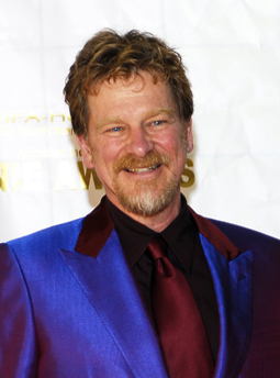 Roger Allers at the 34th Annual Annie Awards